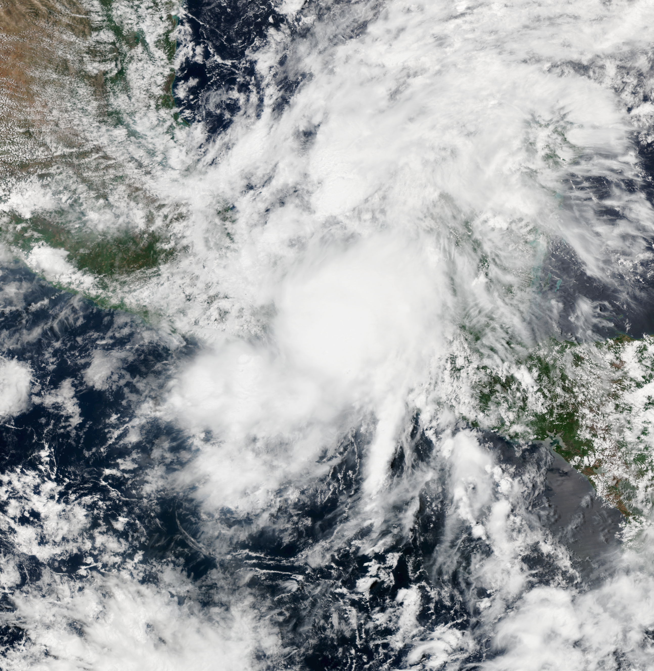 Tropical Storm Boris as a weak tropical storm making landfall in southeastern Mexico on June 3, 2014. Imaged by the true-color imager on NASA's Suomi NPP satellite.